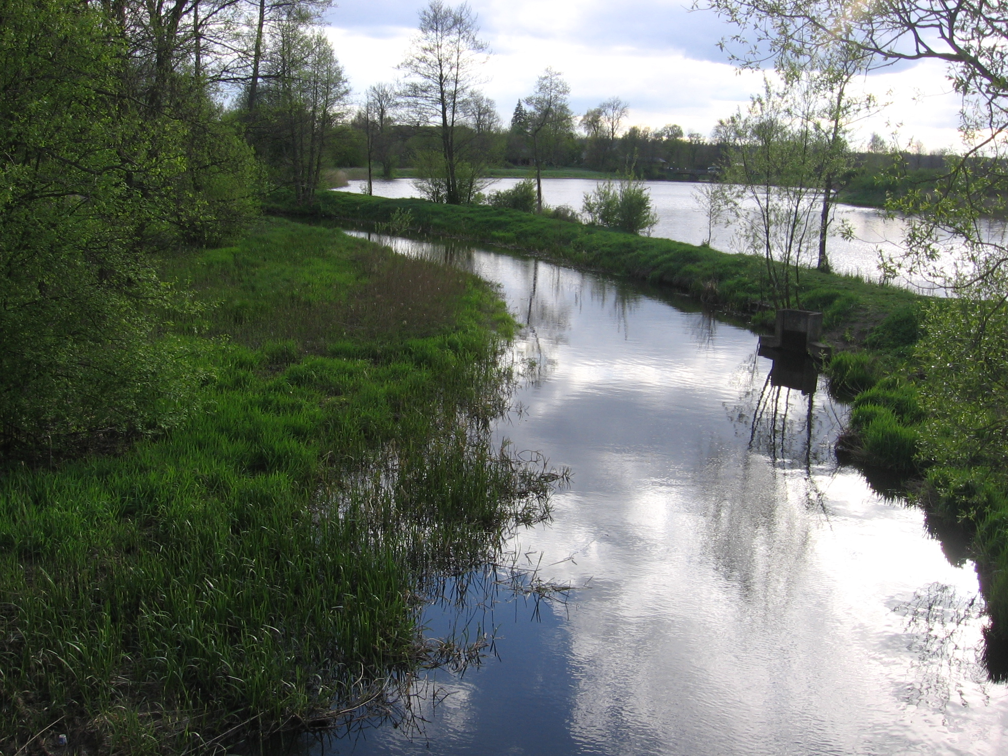 River Narewka in the nearby of Białowieża